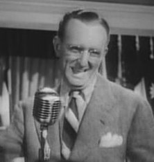 Cropped screenshot of Kay Kyser from the film Stage Door Canteen.